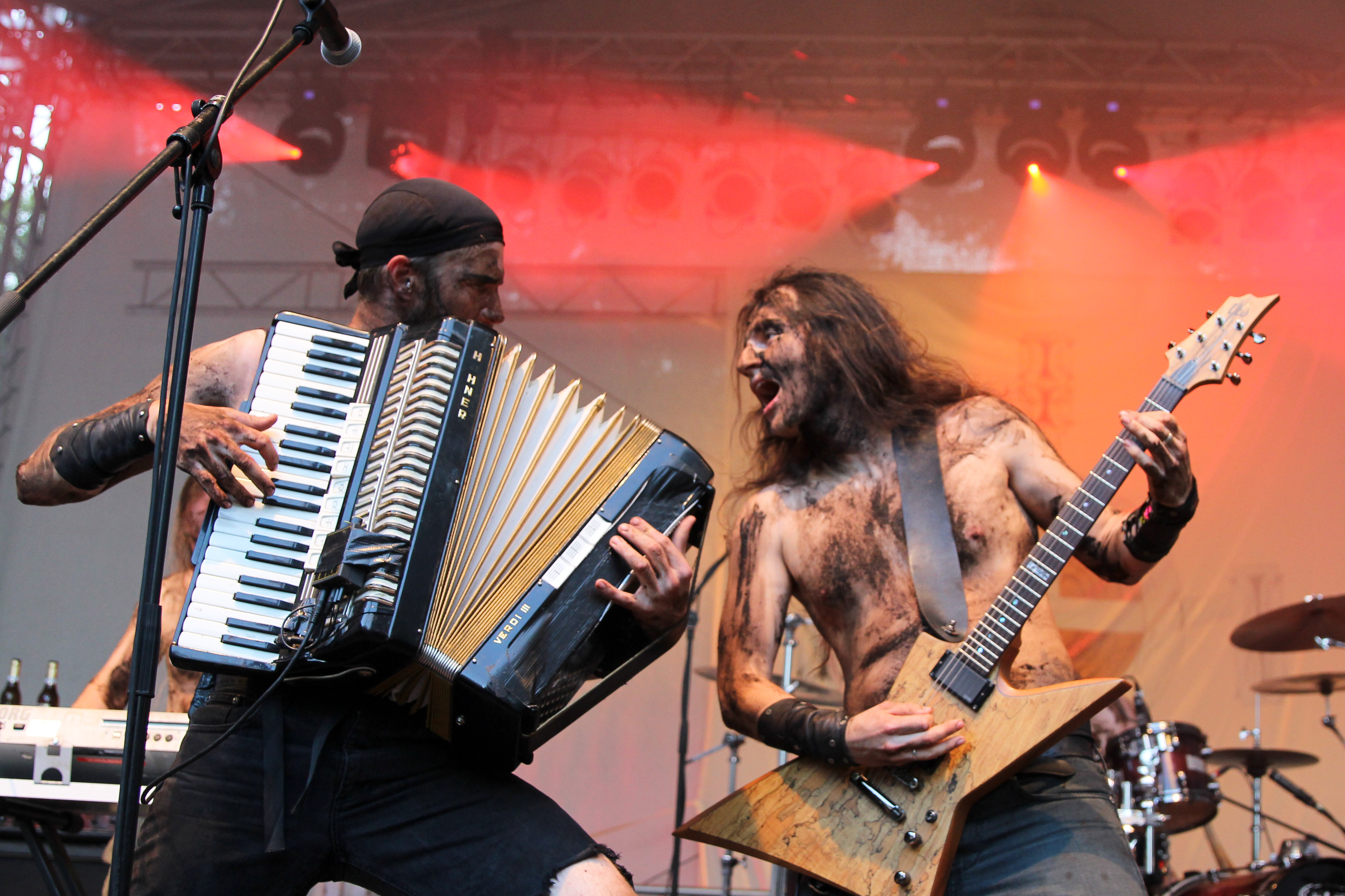 Finsterforst at the Wave-Gotik-Treffen 2014.